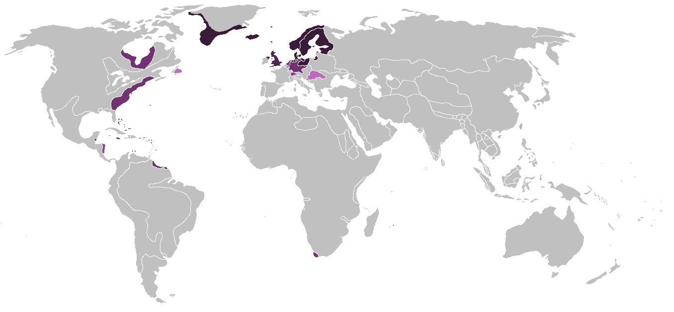 This map shows countries by percentage of Protestants around 1710. An exception to the rule: Plantations in Ireland are marked. Legend: 90%-100% 80%-90% 70%-80% 60%-70% 50%-60% 40%-50% 30%-40% 20%-30% 10%-20% Below 10% or no data